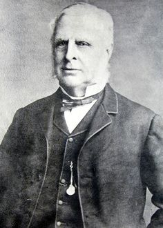 Portrait photo of Robert Manning